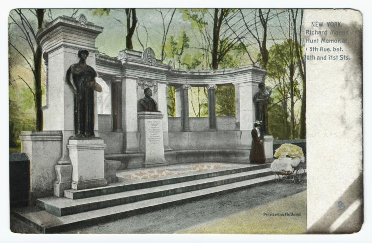 Postcard view of the Richard Morris Hunt Memorial on New York City's Fifth Avenue between 70th and 71st Streets. Hunt was a New York City architect. Courtesy of the New York Public Library Digital Collection.